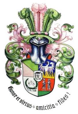 Wappen des Corps Franconia